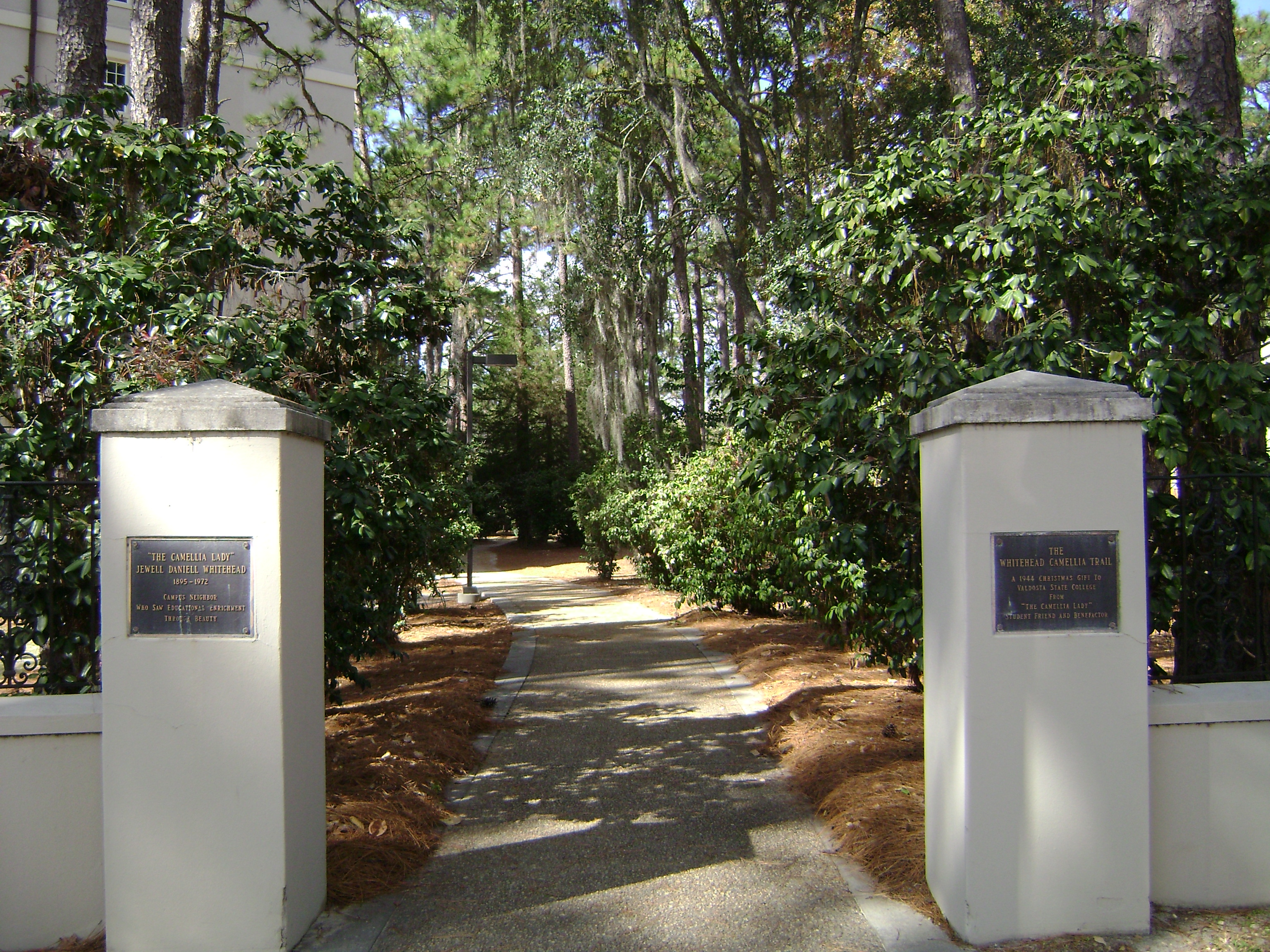 Entrance to Whithead Camelia Trail at Valdosta State University, Lowndes County, Georgia